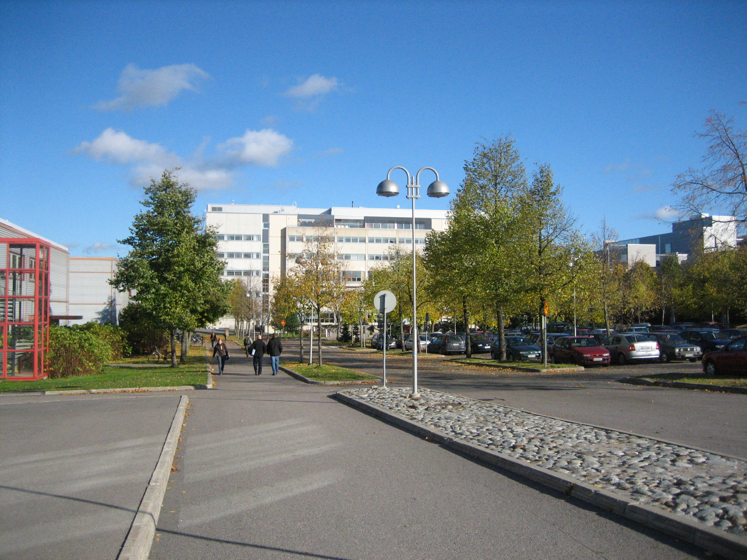 A view of the campus of the Tampere University of Technology towards the Päätalo building.